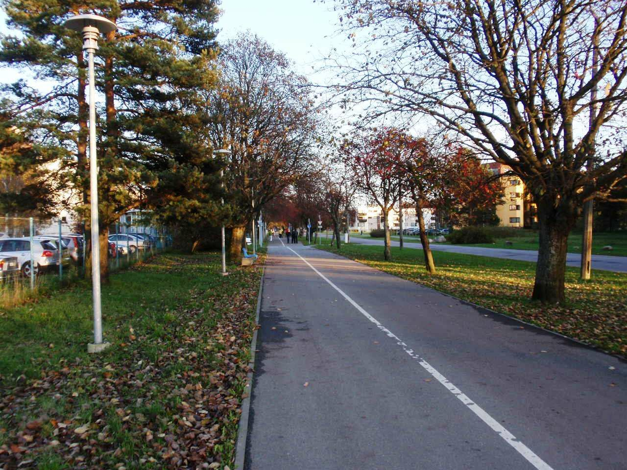 Kolde puiestee in Pelgulinn, Tallinn, Estonia.